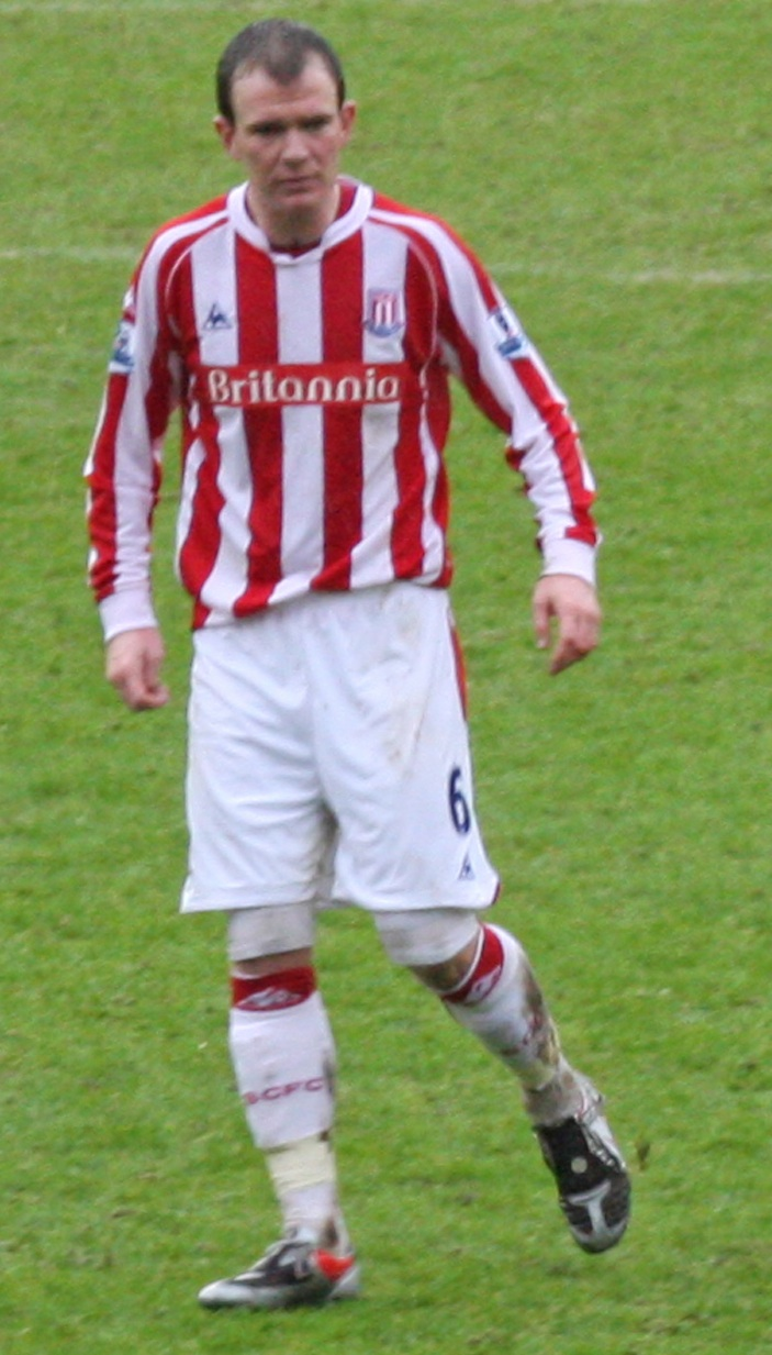 Stoke City FC V Arsenal 50